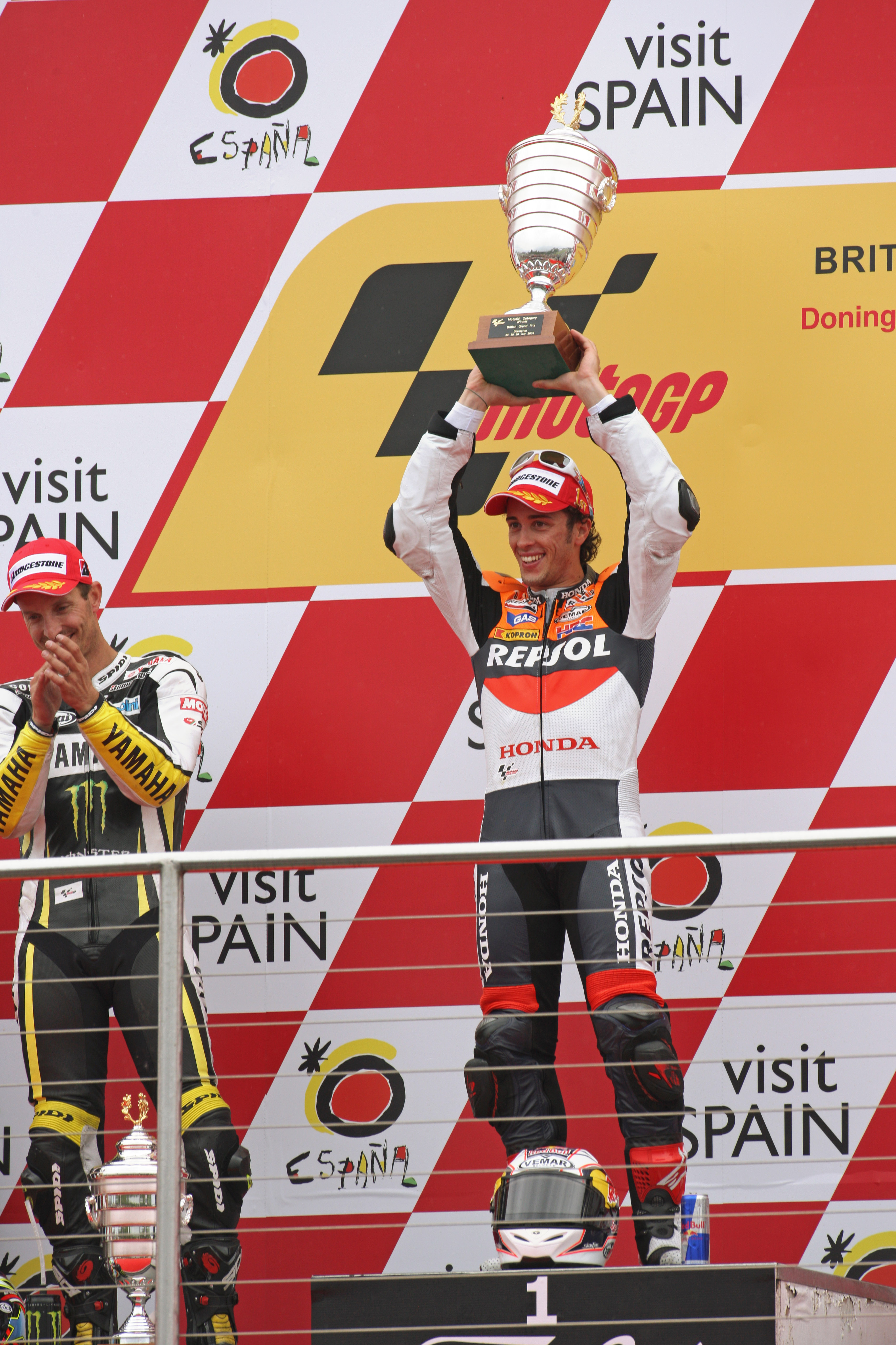 Colin Edwards and Andrea Dovizioso, lifting his trophy and celebrating on the podium after finishing in second and first place at the 2009 British Grand Prix.